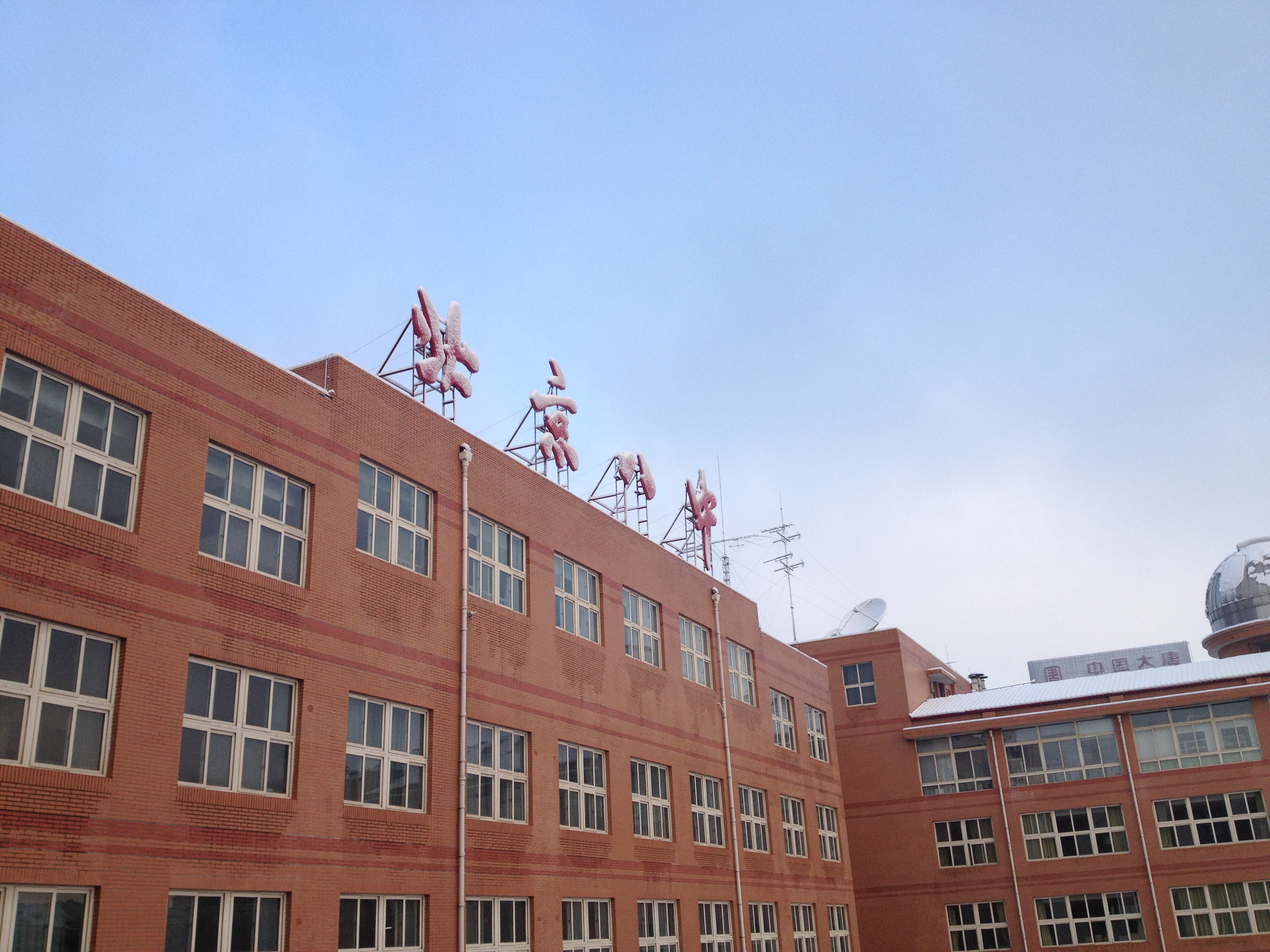 Beijing No.8 High School's main building after snow